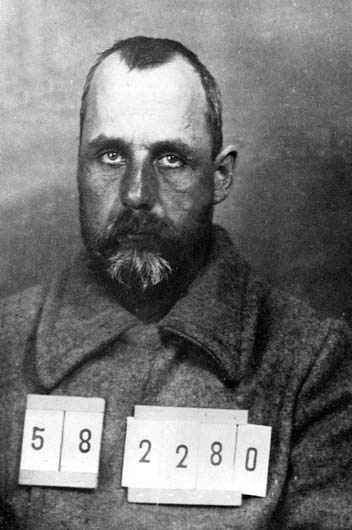 Bishop Arkadiy Ostalsky after NKVD tortures